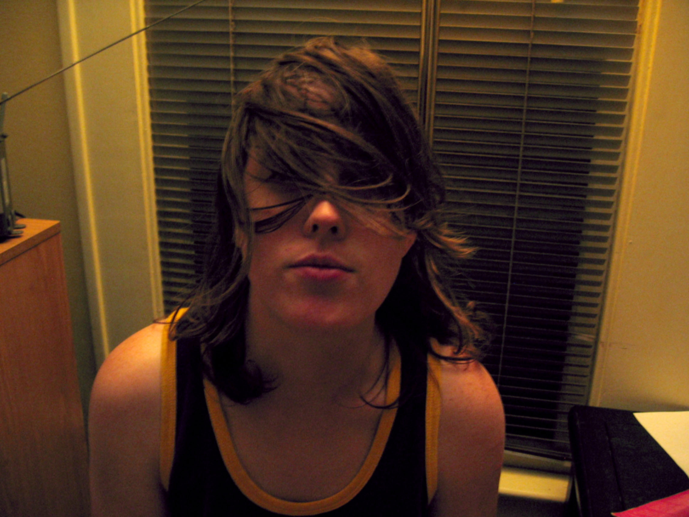 Jana Hunter at a friend's home.